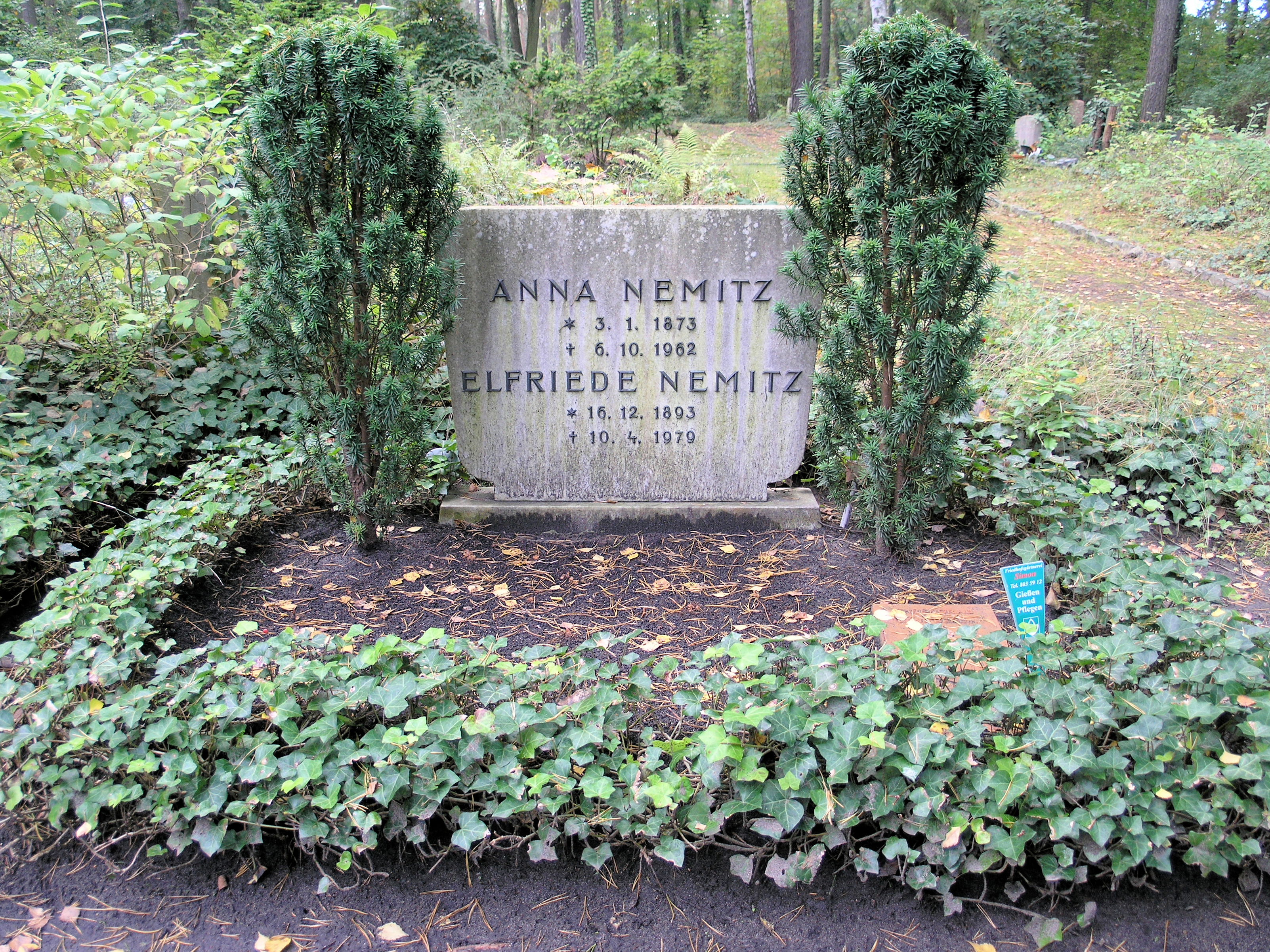 "Ehrengrab" (grave of honor), Anna Nemitz, Potsdamer Chaussee 75, Berlin-Nikolassee, Germany Koordinate:52°25′23″N 13°12′38″E / 52.42306°N 13.21056°E